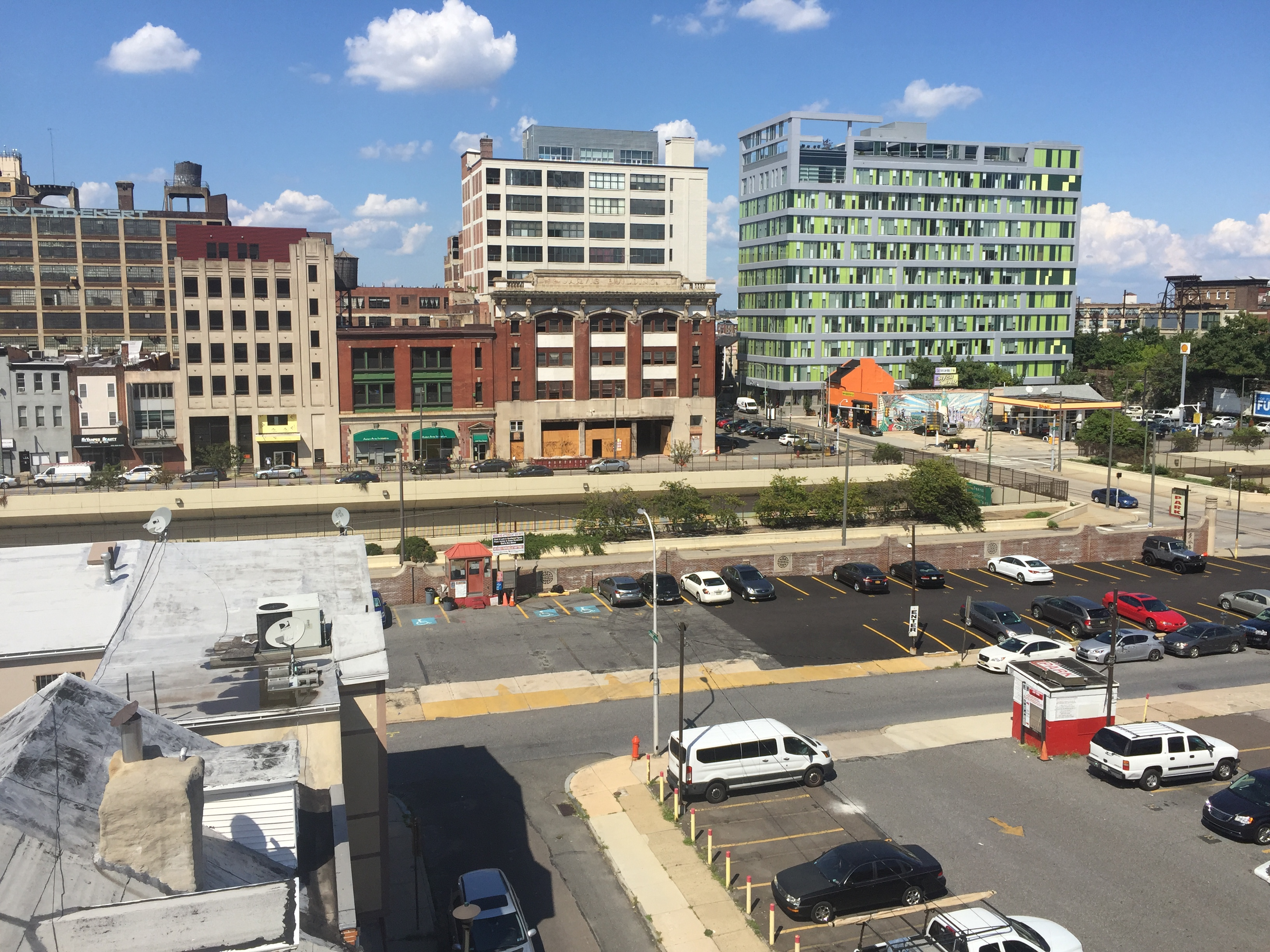 Callowhill view from center city